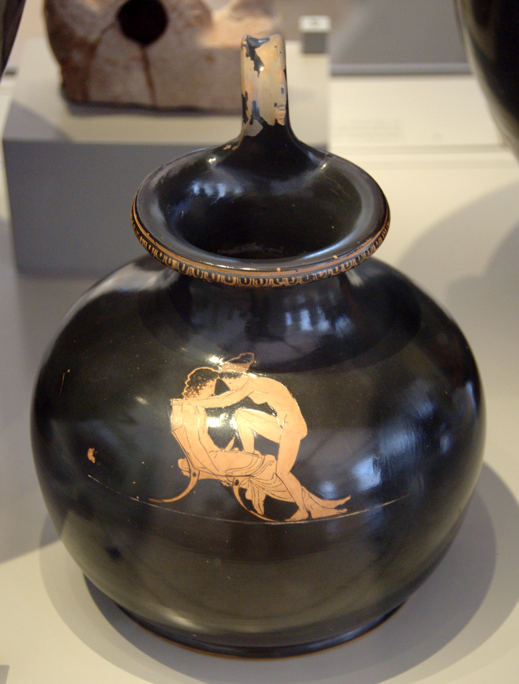 Erotic scene with a young man and a hetaera. Attic red-figure oinochoe, ca. 430 BC. From Locri (Italy).